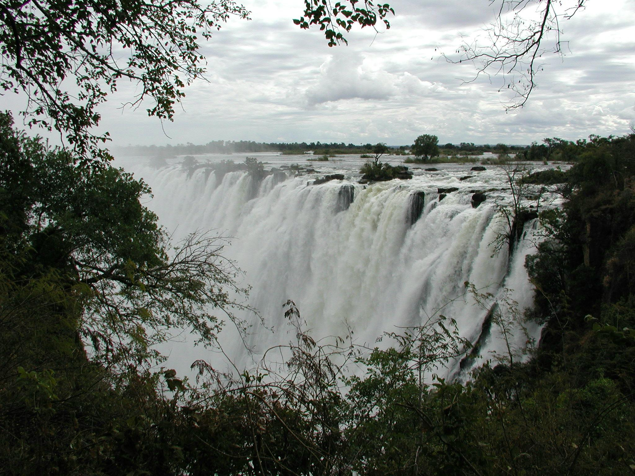 The Victoria Falls on the Zambian-Zimbabwian border viewed from the Mosi-oa-Tunya National Park in Zambia. Mosi-oa-Tunya is the local name of the falls and means "the smoke that thunders".